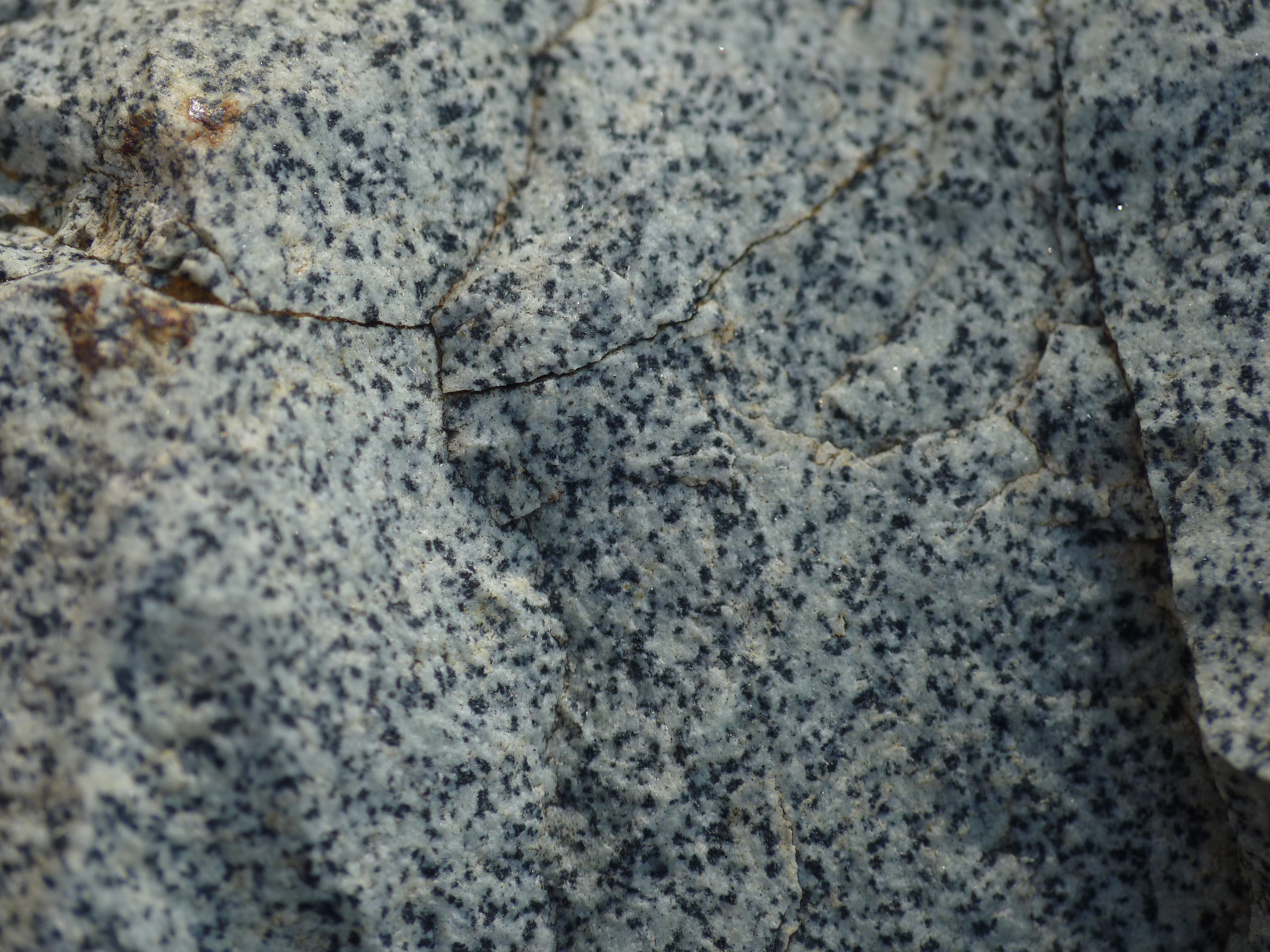 Comendite is an alkali rhyolite, an igneous rock rich in sodium and potassium. In the Glass House Mountains of Queensland, Australia it is a light blue grey with specks of riebeckite.